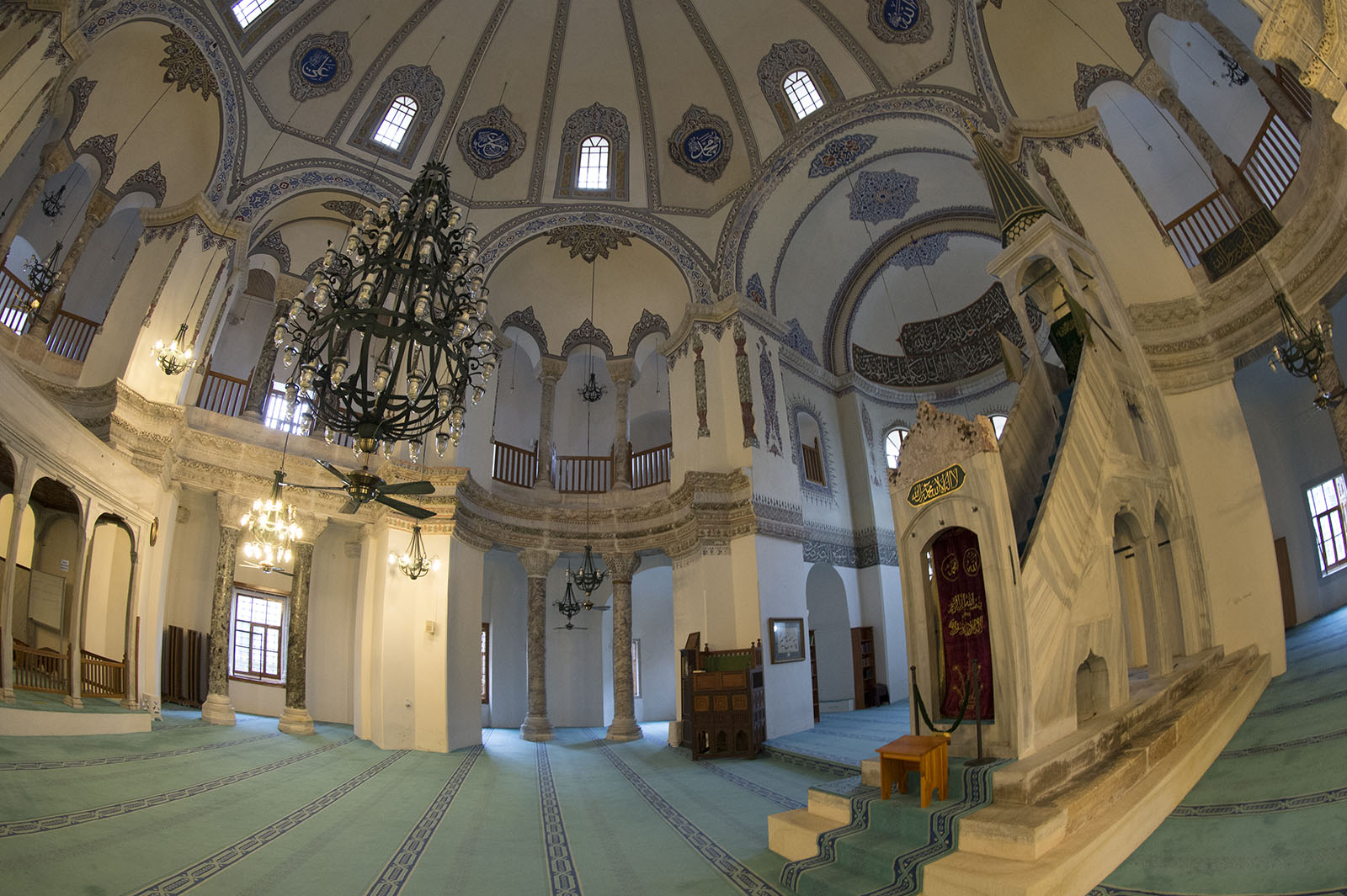 Though distorted this picture gives a good impression of the sense of space the mosque can give. One sees the mosque's mihrab at the right edge and the platform to the left, (müezzin mahfili in Turkish) opposite the minbar where the assistant of the Imam, the muezzin, stands during prayer. The muezzin recites the answers to the prayers of the Imam where applicable.